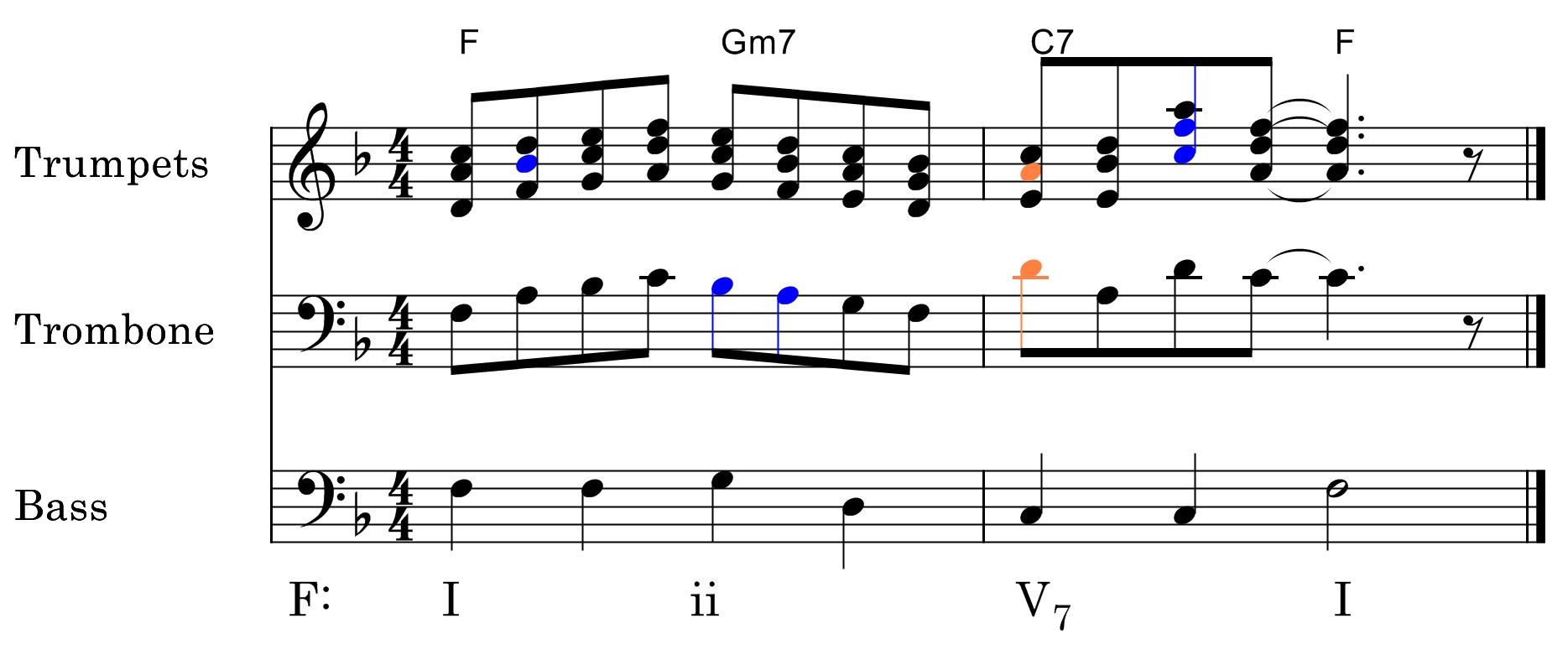 4 voice sectional harmony in drop 3.